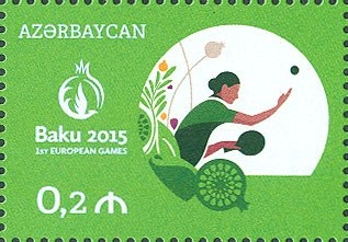 Baku 2015. First European Games.(2nd edition) N 1217 - 20 qapik – Table Tennis